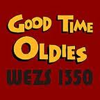 WEZS logo 2008 to present